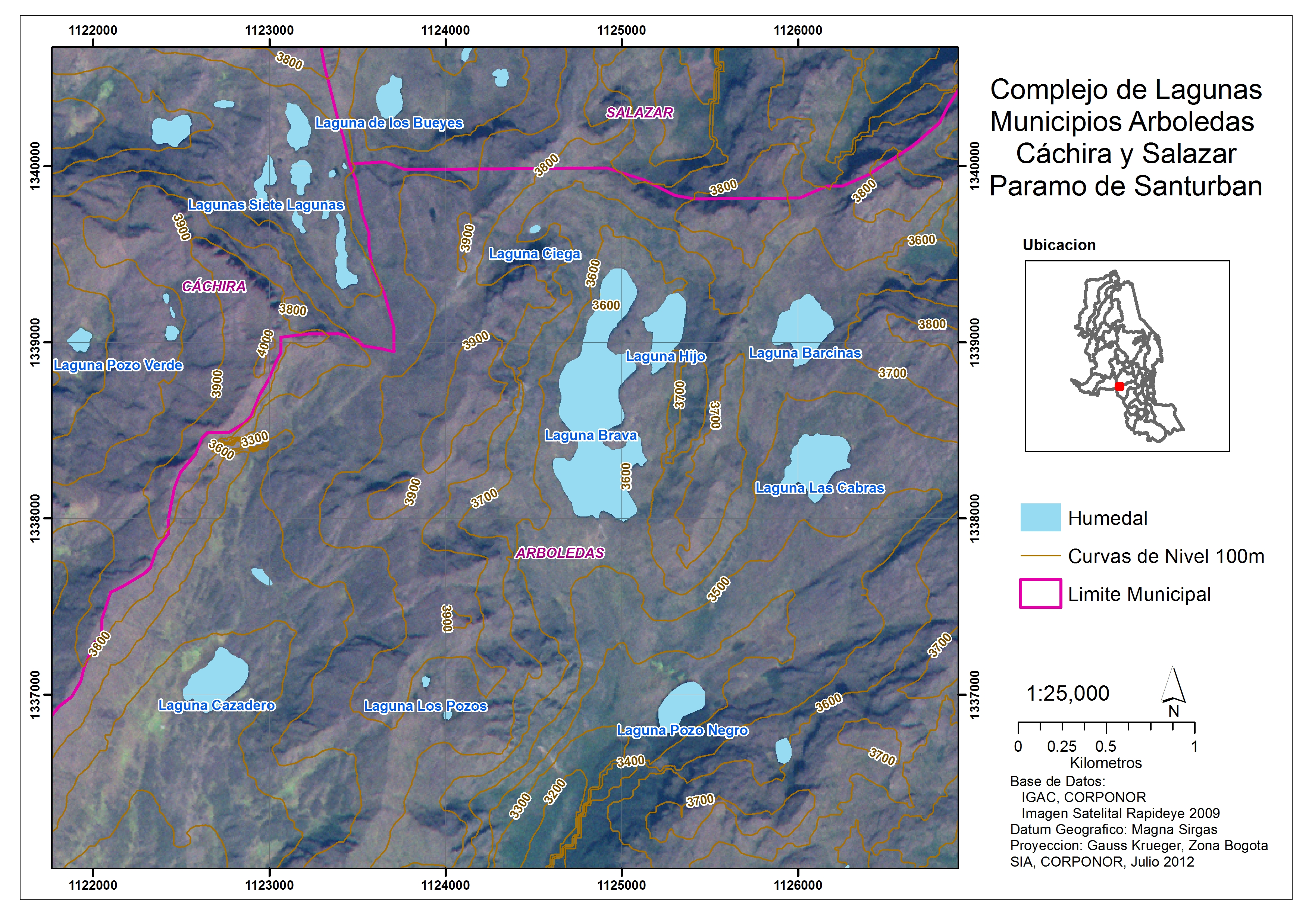 Map Lake complex Arboledas/Salazar/Cachira in the Paramo Ecosystems Santurban: Laguna Brava, Laguna Las Cabras, Laguna Barcinas, Siete Lagunas, los Bueyes